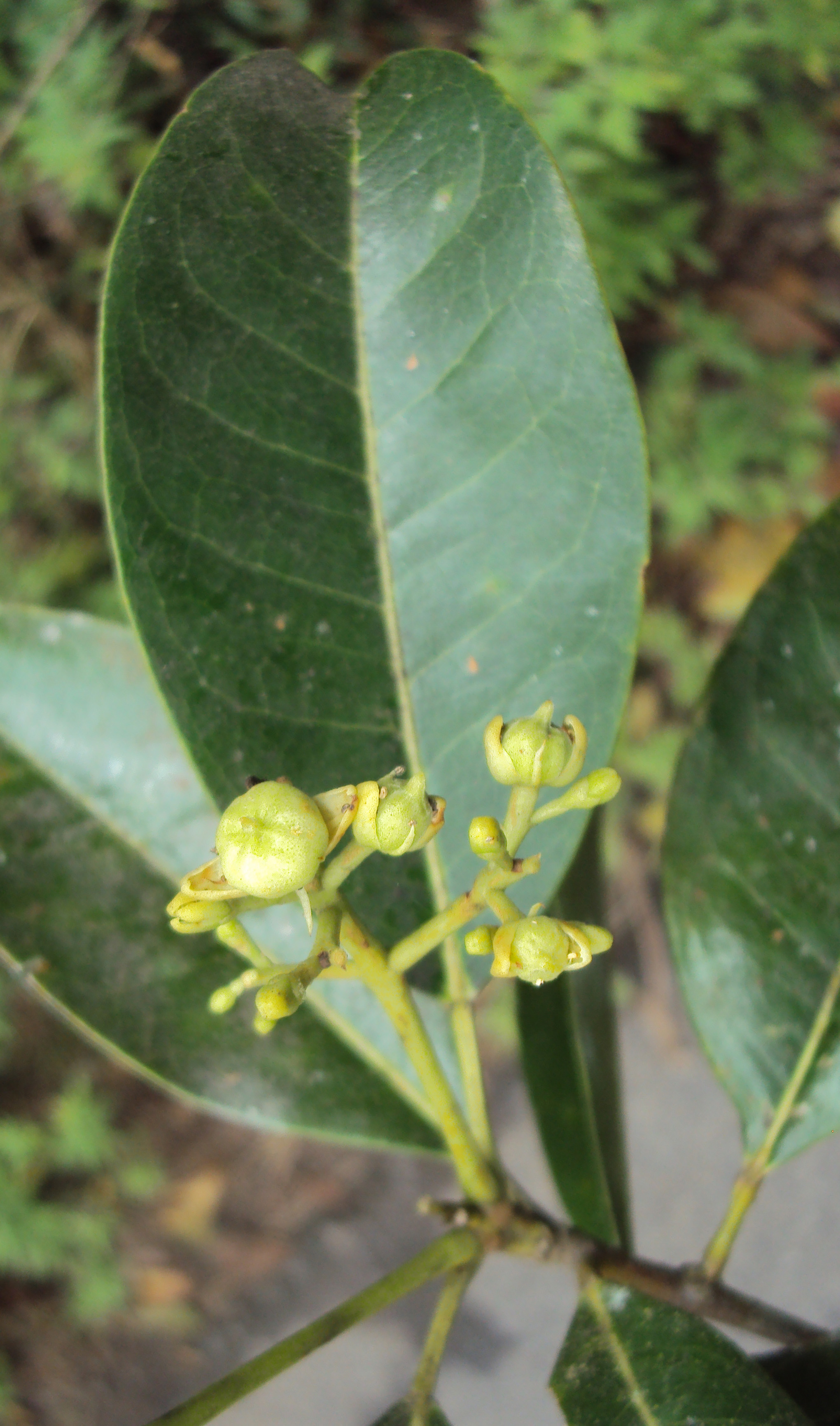 Acronychia pedunculata